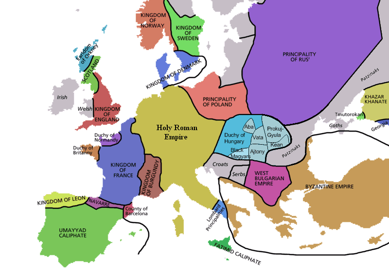 Based on Image:Europe998new.png by User:Fz22